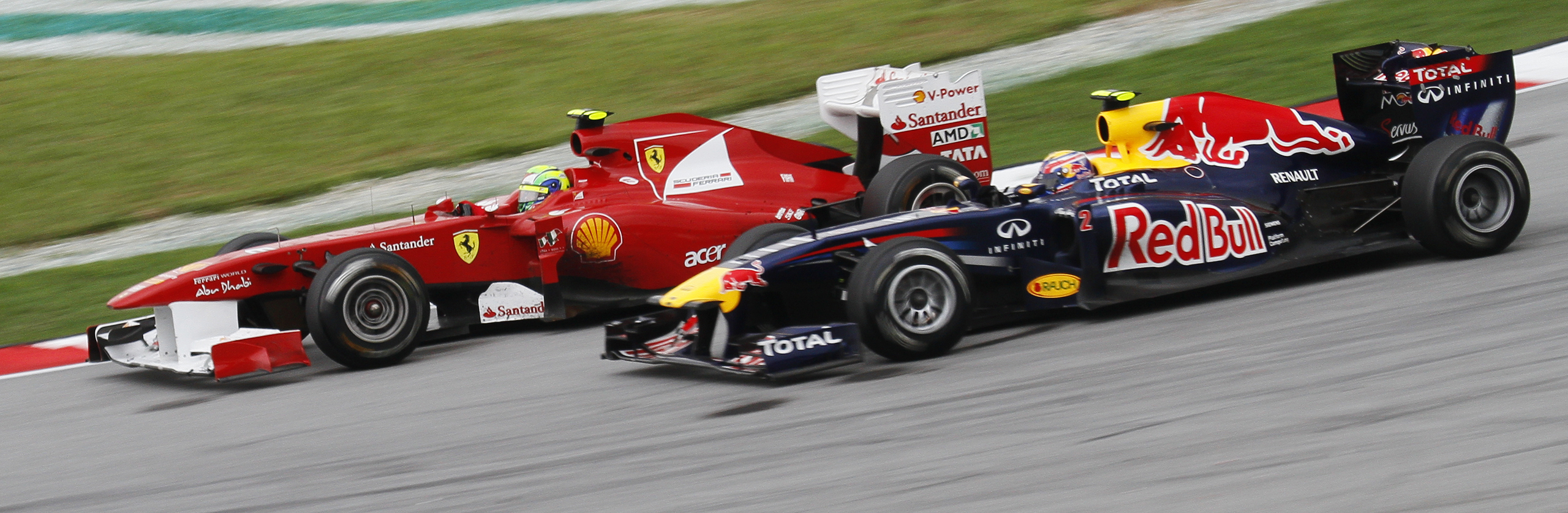 Formula One 2011 Rd.2 Malaysian GP: Felipe Massa Ferrari and Mark Webber (Red Bull) during the race.